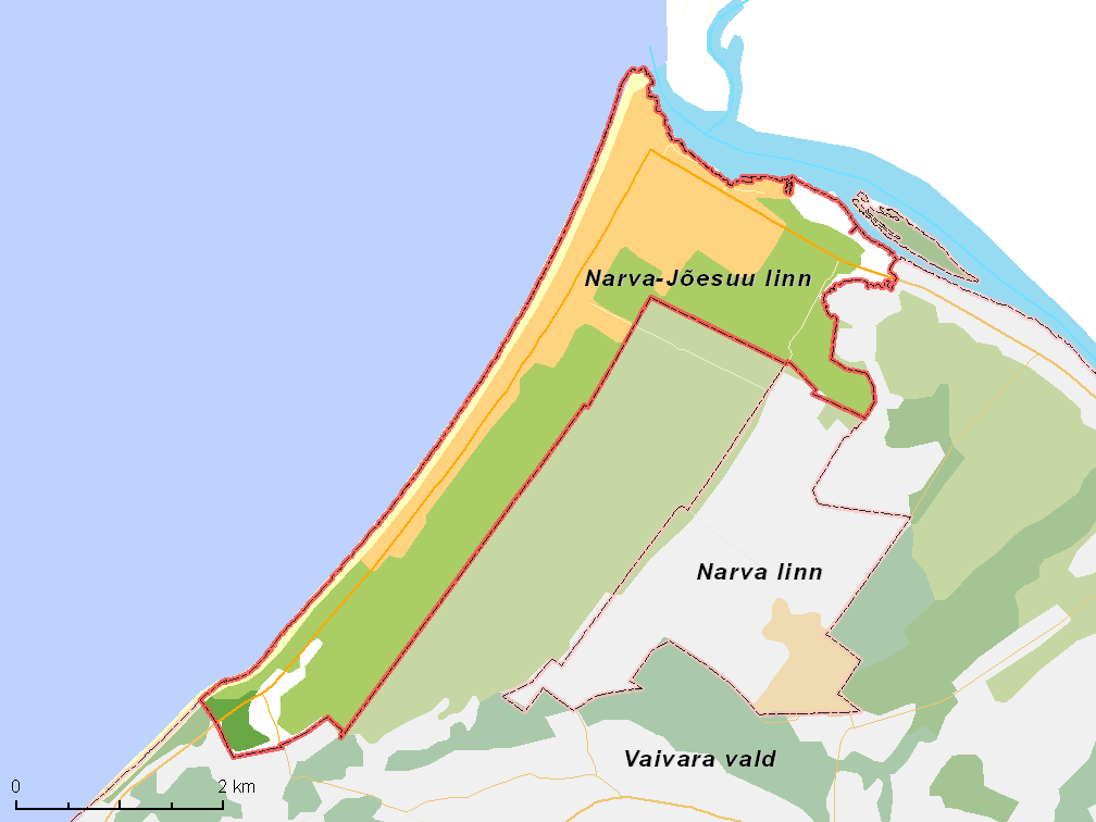 Map of municipality in Estonia